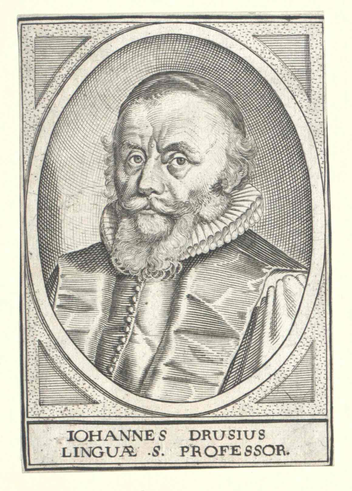 Portrait of Johannes van den Driesche